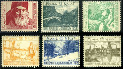 Bogus issue of postage stamps of Azerbaijan